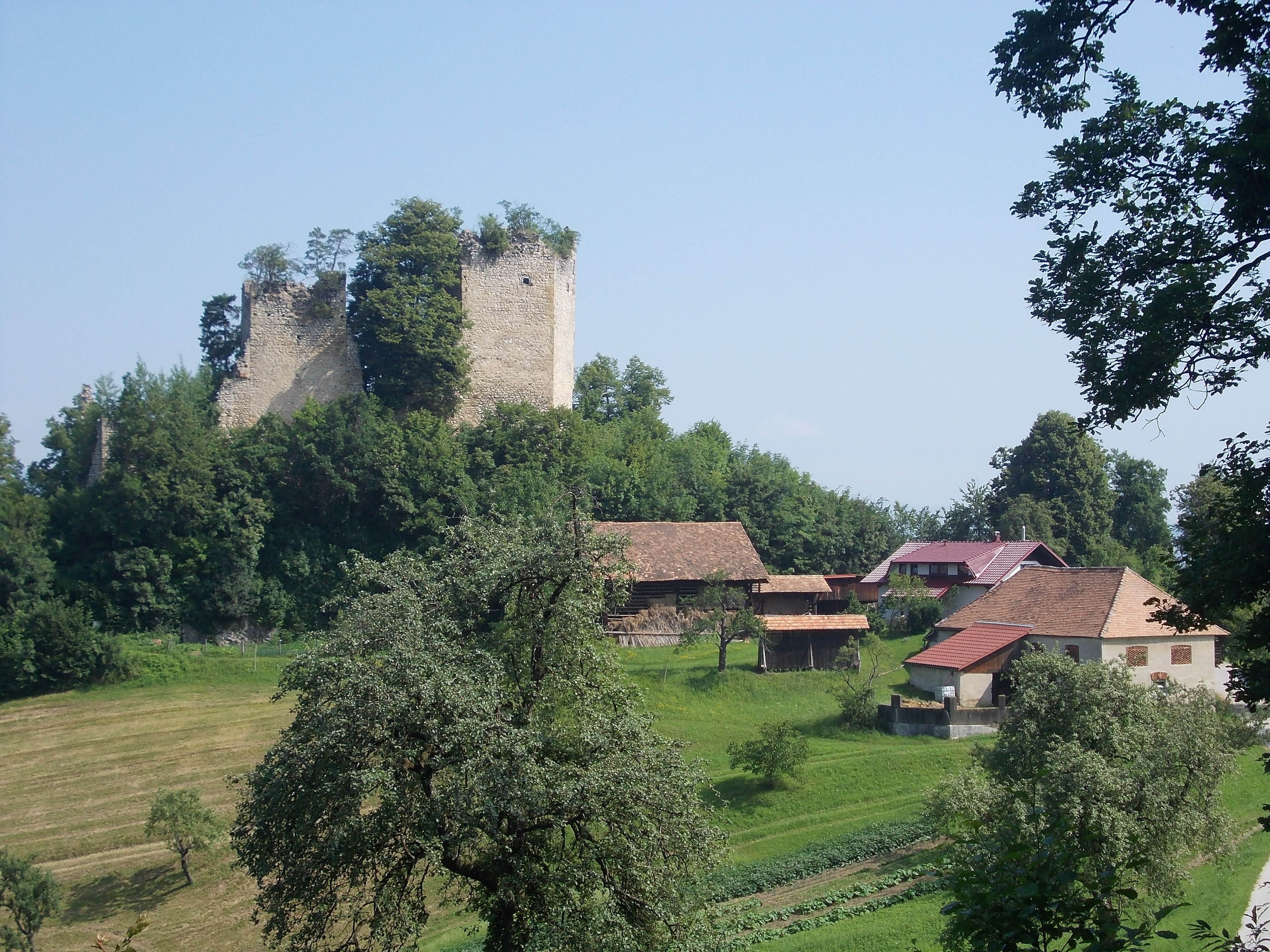 Rifnik Castle